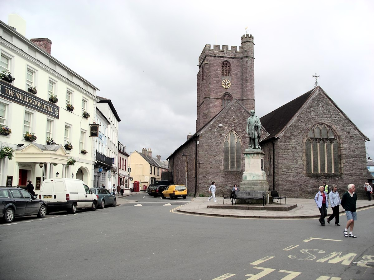 Brecon town centre with Church